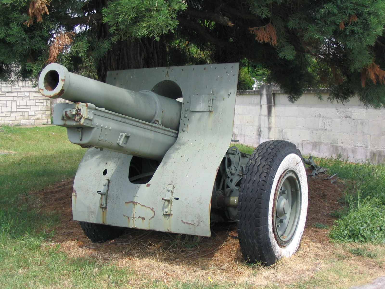 The 155 mm mle 1917 CS at Saumur museum